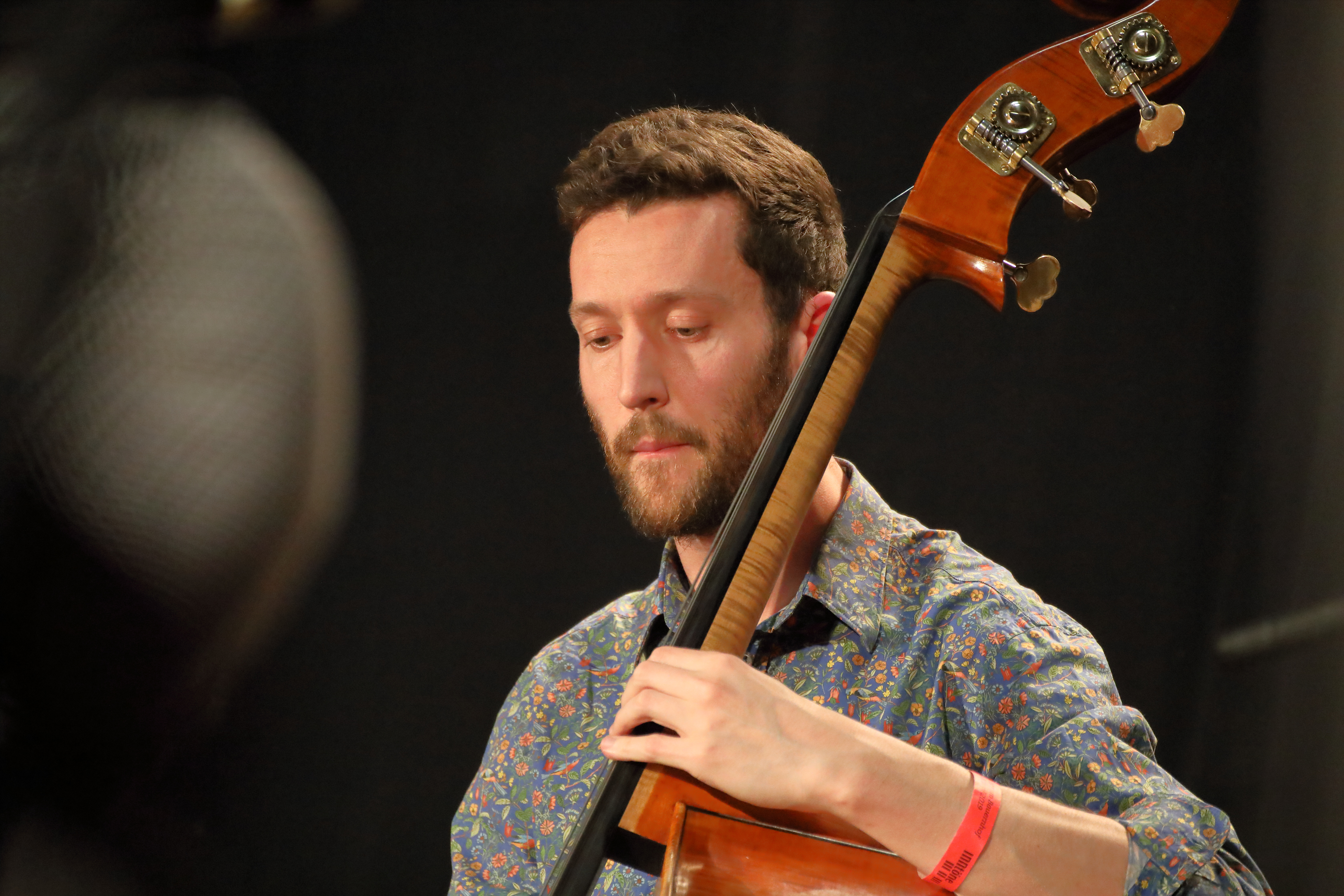 Double bass player Alec Dankworth with Jean Toussaint Allstar Sextet performs Brother Raymond at INNtöne Jazzfestival 2019.